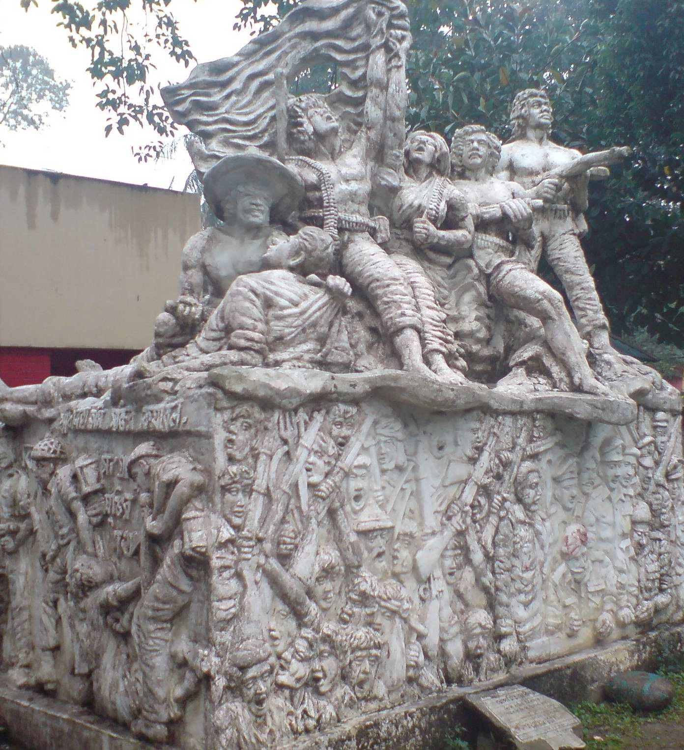 Shoparjito Shadhinota Sculpture. Created by Shamim Shikdar ( Assisted by Himangshu Ray and Anwar Chowdhury ) Situated near TSC, Dhaka University.